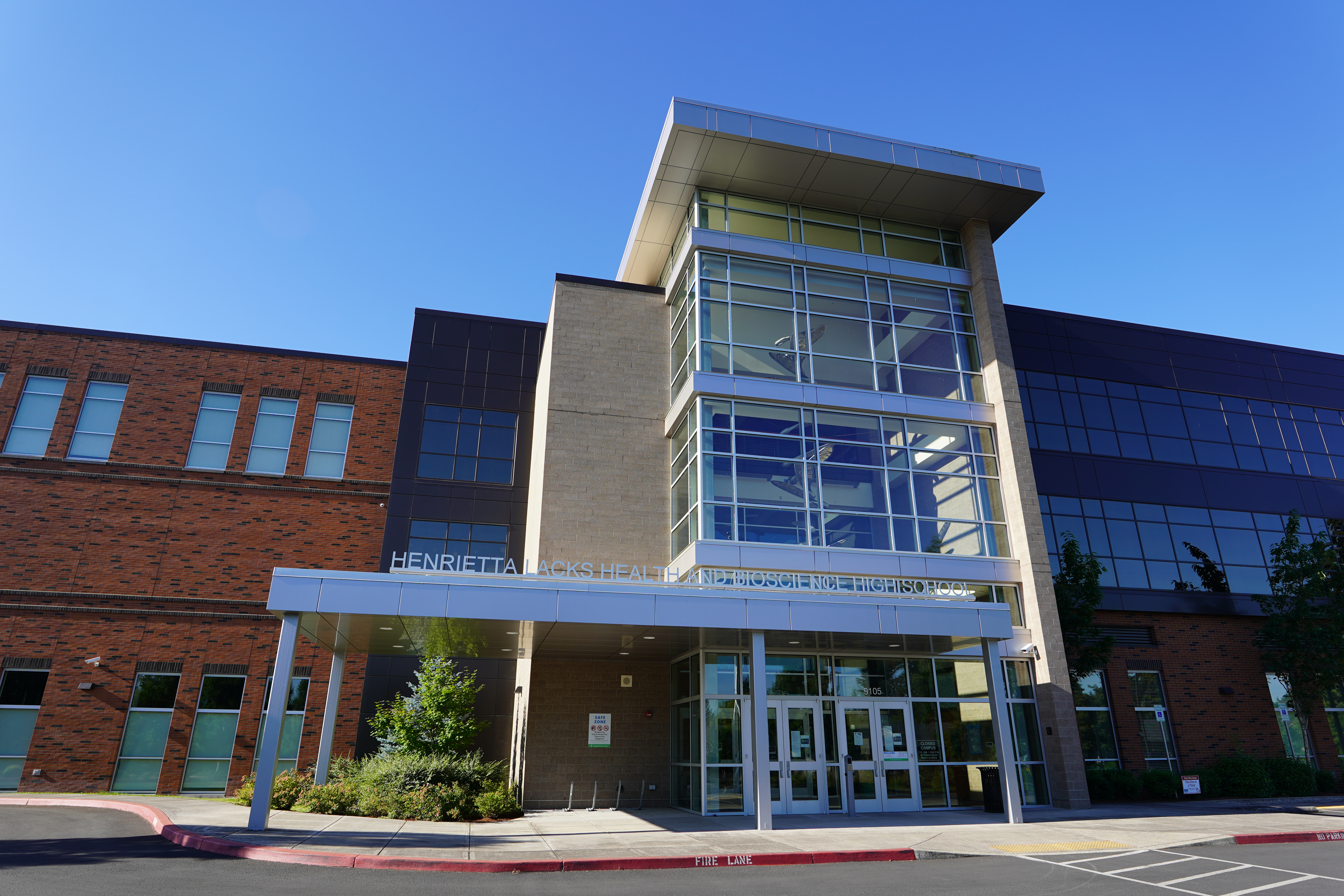 The image shows the main entrance and northern face of the Henrietta Lacks Health and Bioscience High School. Visible inside is a metallic mobile sculpture of what appear to be maple seeds. Photograph taken on 2020-07-19T15:24:59Z.